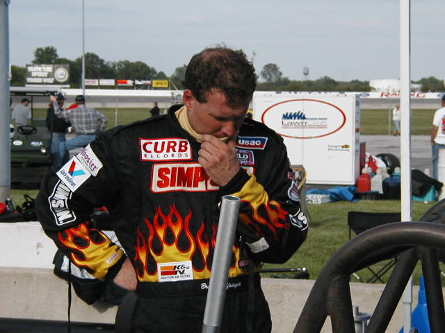 Brad Noffinger at Indianapolis Raceway Park in 2003.